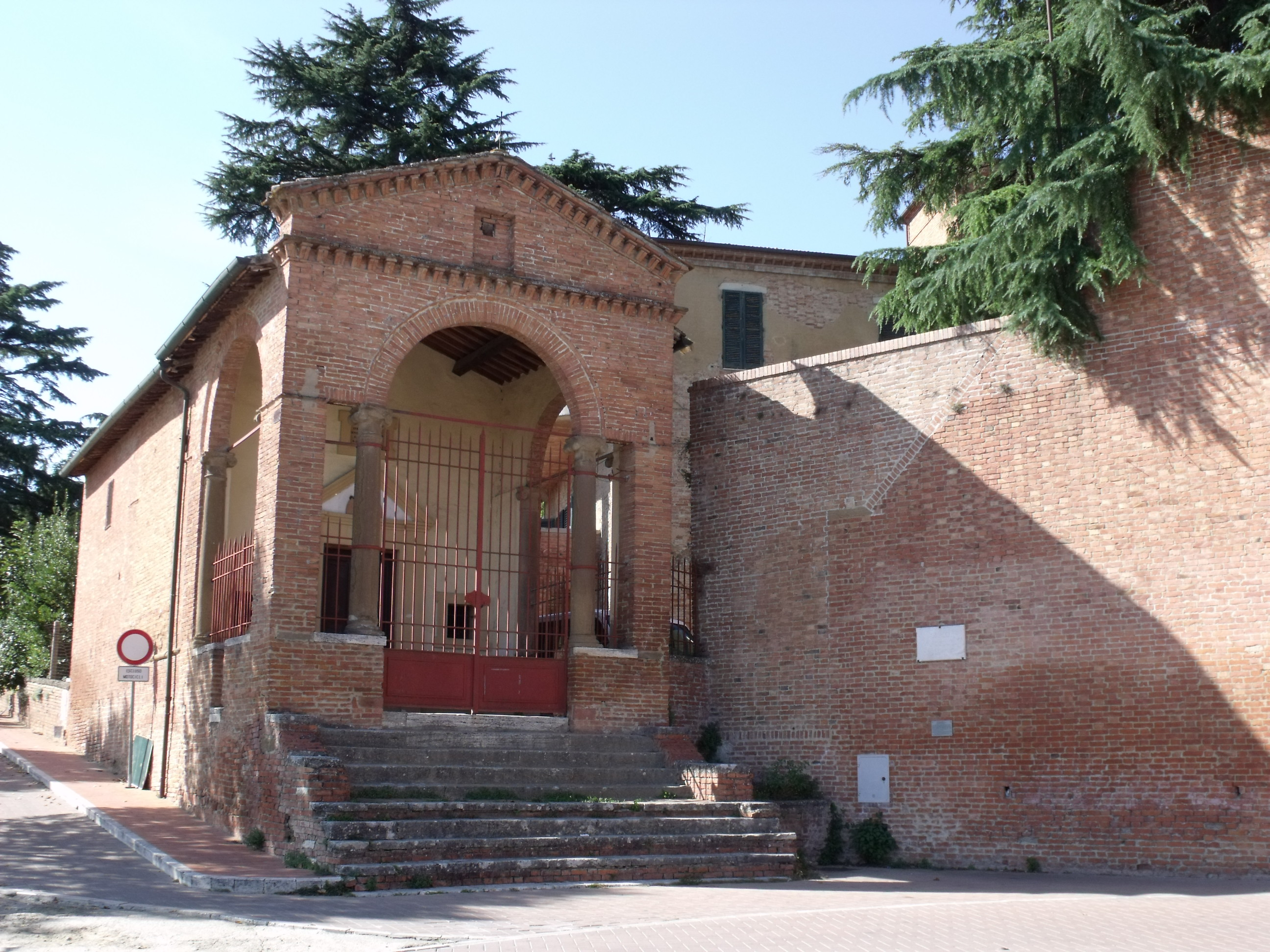 Chiesa della Madonna delle Nevi, Church in Torrita di Siena